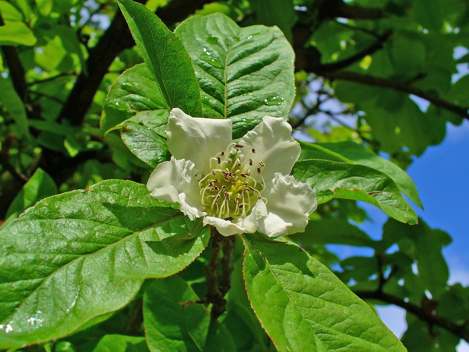 Common Medlar, flower; Botanical Garden KIT, Karlsruhe, Germany.